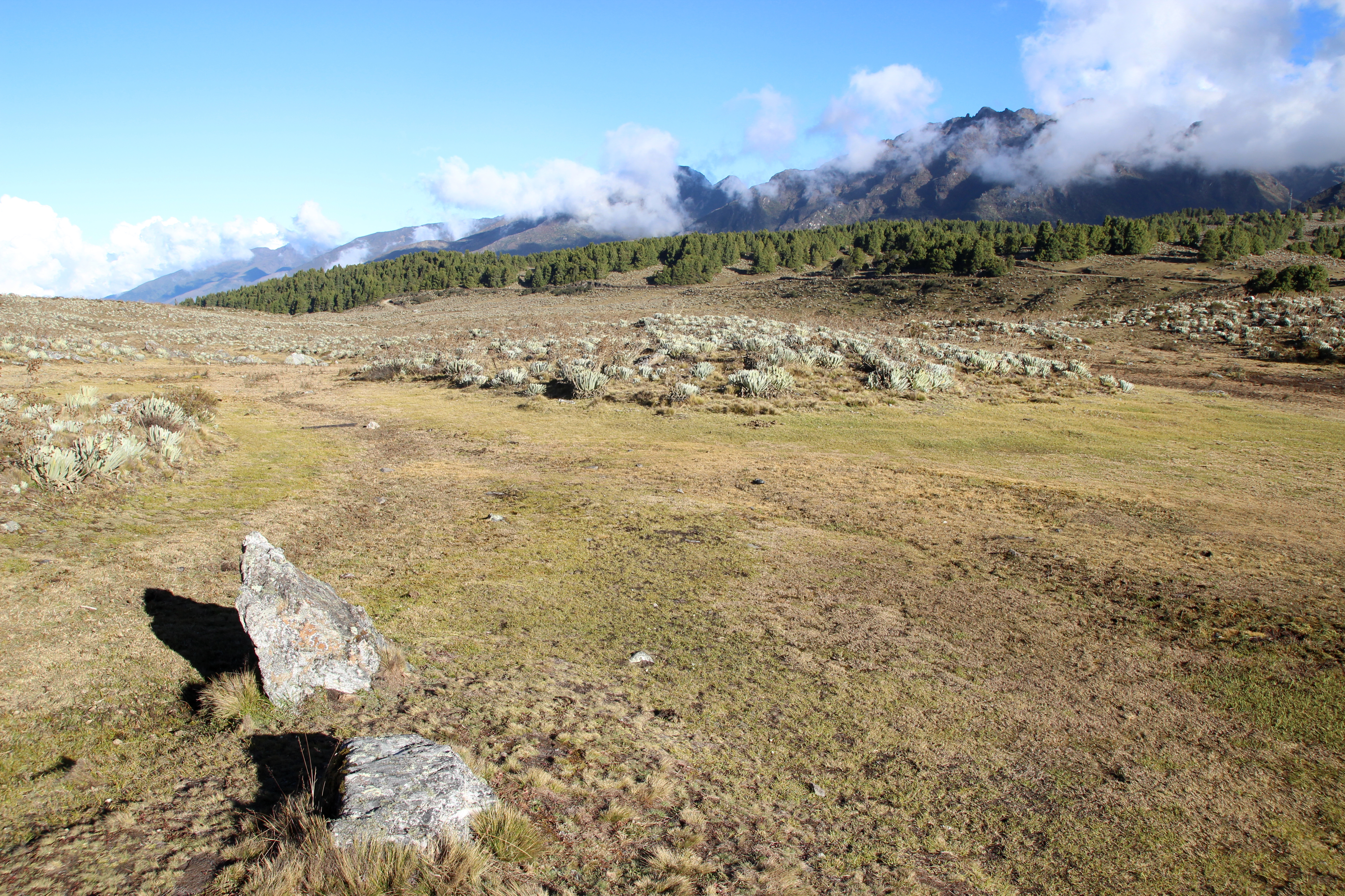 Páramo near the Mucubají Lagoon, Merida state, Venezuela.